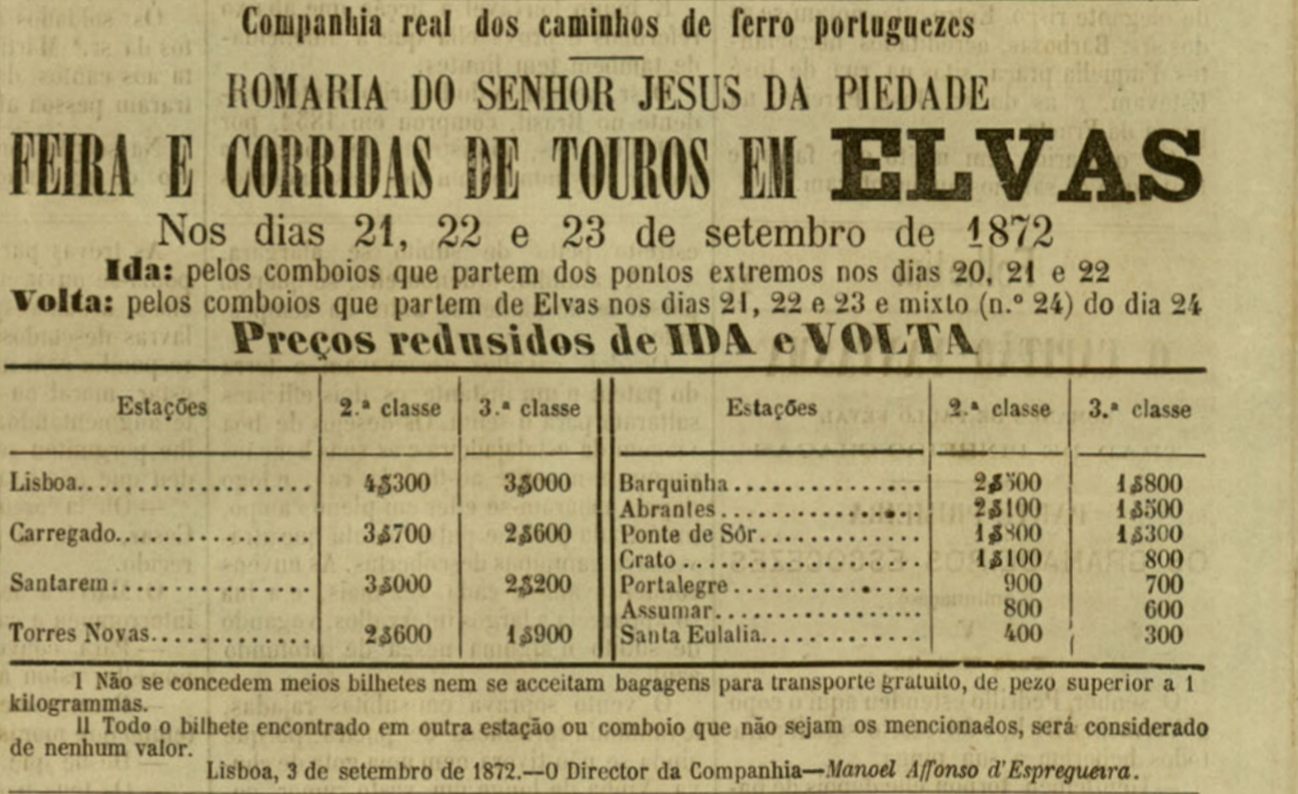 Advertisement of the Companhia Real dos Caminhos de Ferro Portugueses (Royal Company of the Portuguese Railways), for return tickets at reduced prices to Elvas, for a fair in honor of the Senhor Jesus da Piedade. This image was published on the Diario Illustrado newspaper No. 76, of 14th September 1872, and scanned by the Biblioteca Nacional de Portugal.